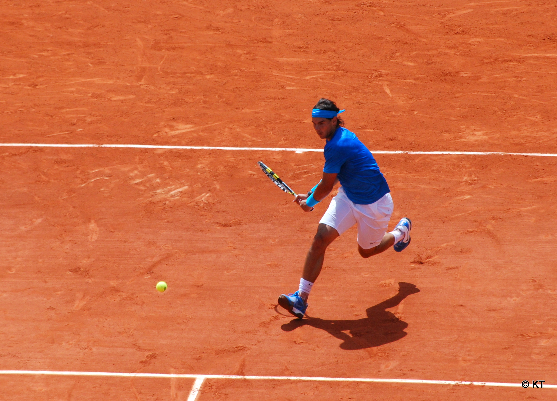 Rafael Nadal during his 3rd round match with Antonio Veic. Nadal won 6-1, 6-3, 6-0. Roland Garros 2011.